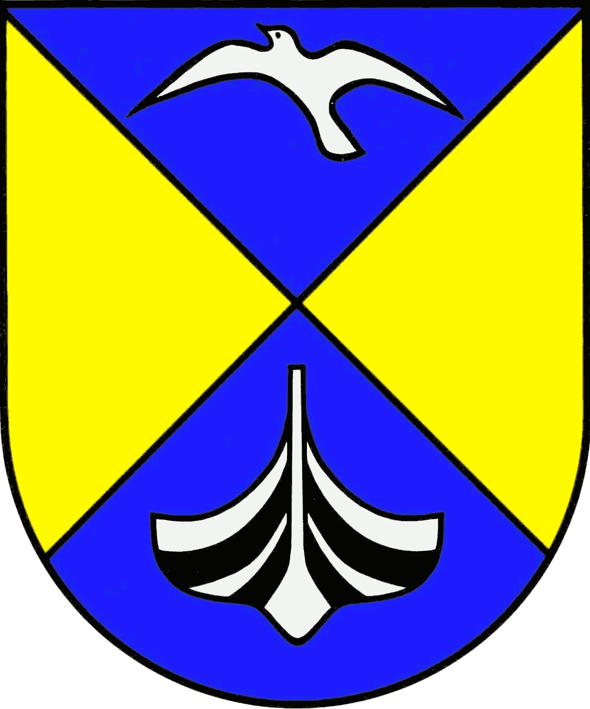 Coat of arms of the municipality Brodersby in Schleswig-Holstein, Germany.